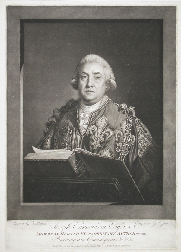 Engraving of Joseph Edmondson